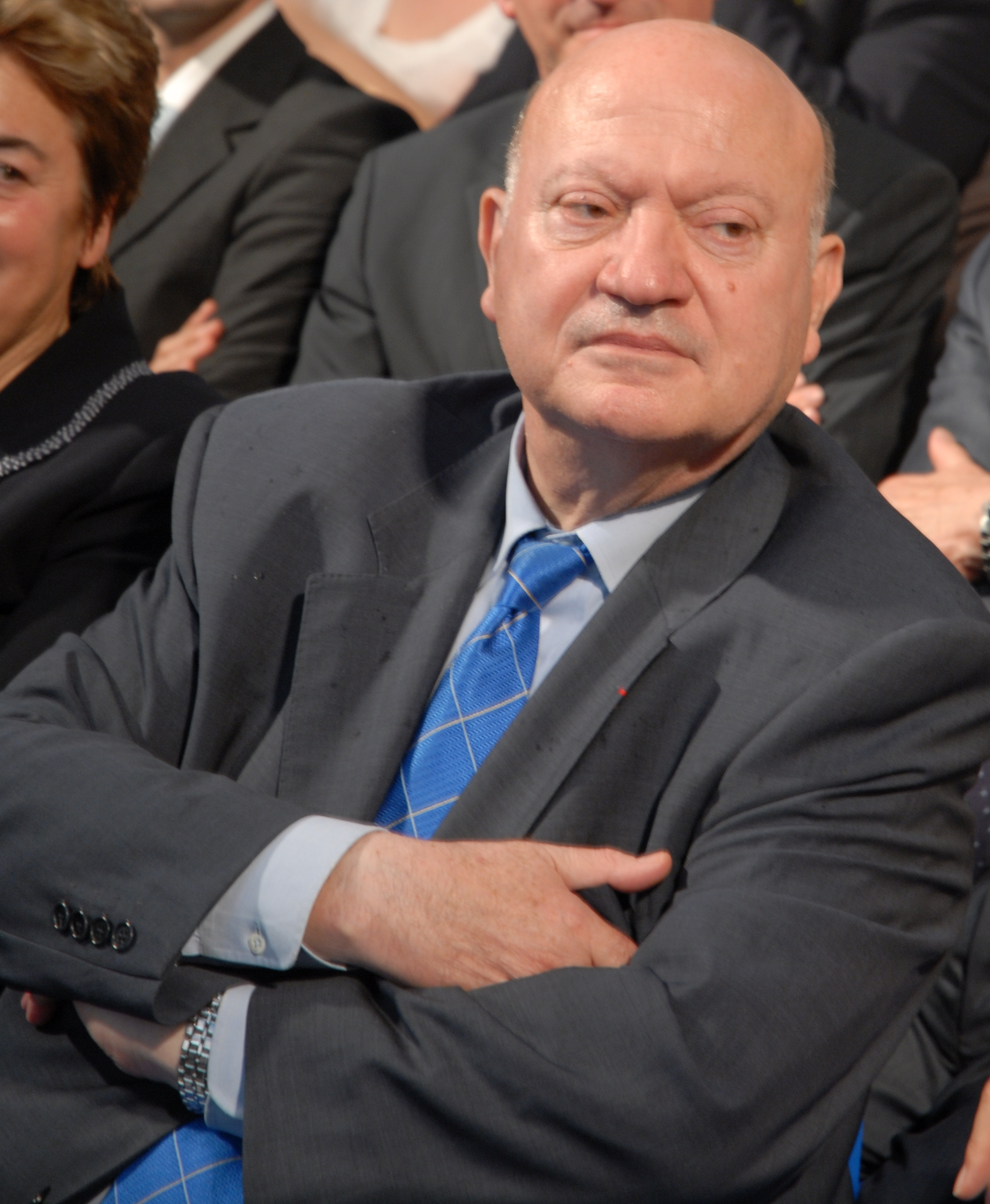 André Santini during Nicolas Sarkozy's meeting in Toulouse on April, 12th 2007 for the 2007 presidential election.